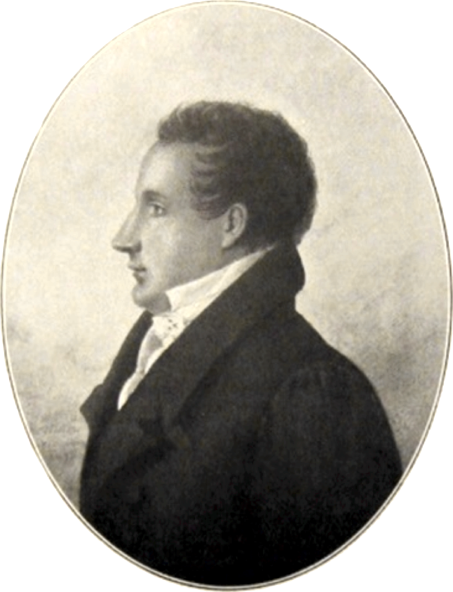 Watercolor by Queen Hortense of Germain Delavigne (1790–1868), French playwright and librettist.